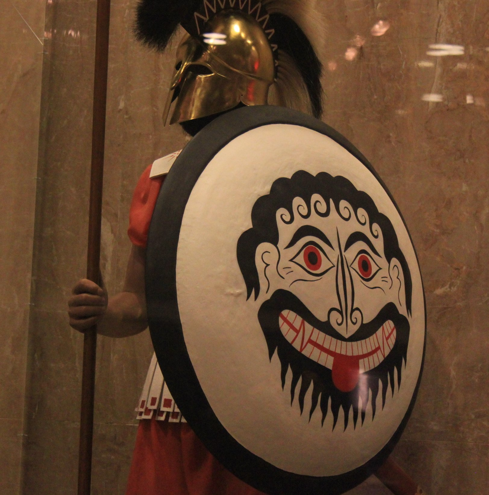 Pictures of other random objects A replica greek hoplite soldier